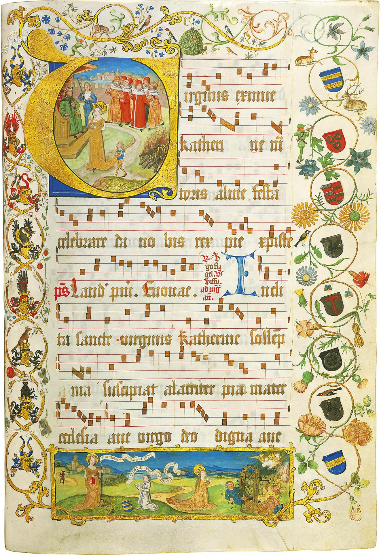 Antiphonal of Elisabeth von Gemmingen. Latin, Vellum, Germany, Speyer